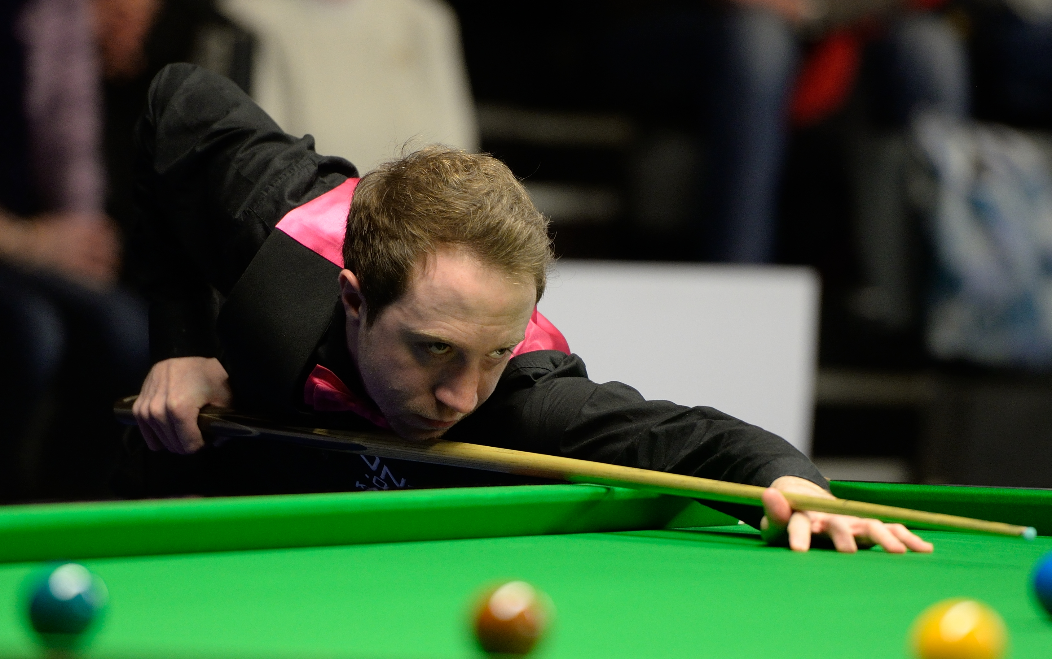 Picture taken in Berlin during the Snooker German Masters in 2015. Michael Wasley.